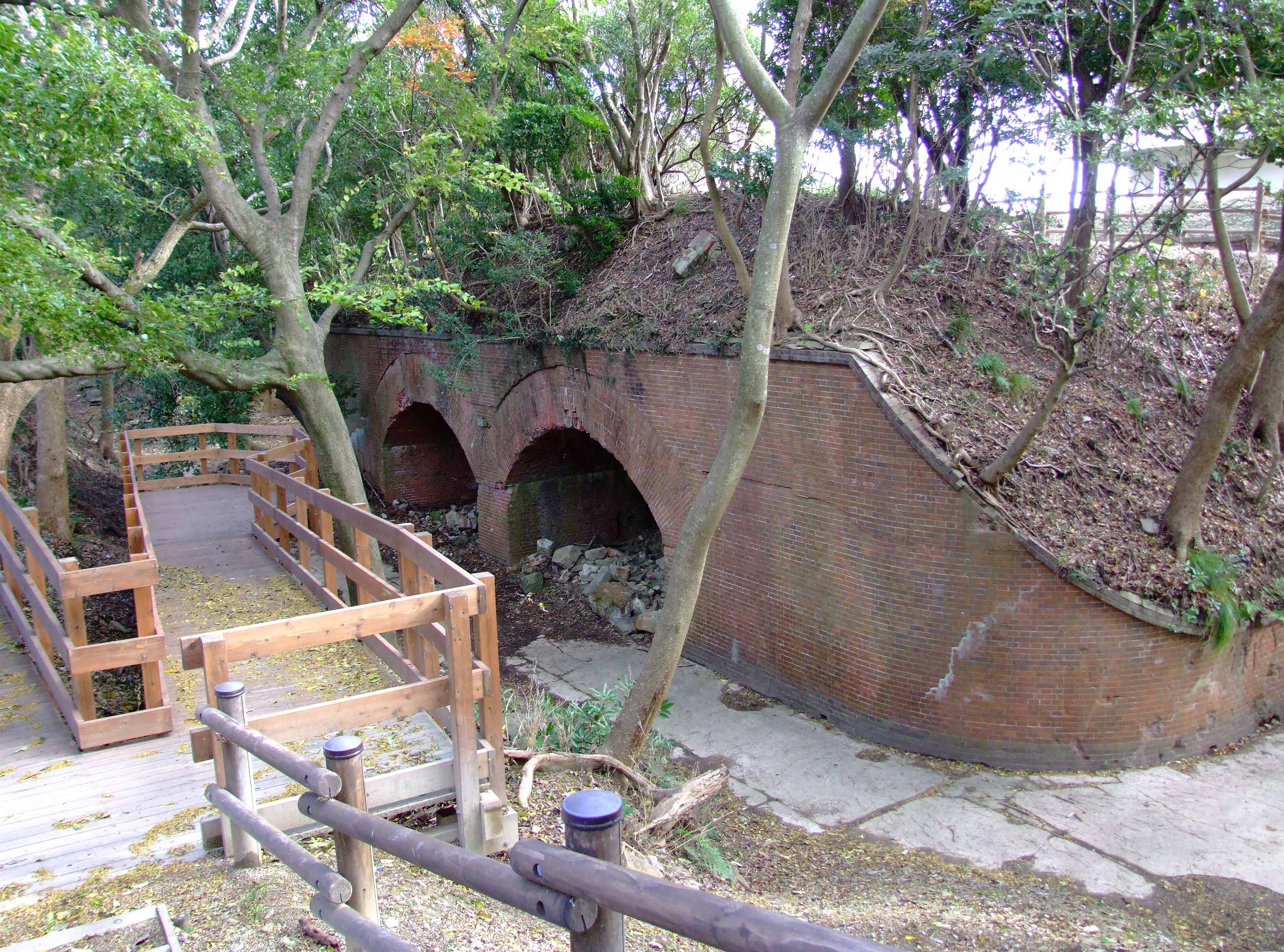 Remains of Oishiyama Bastion in Awaji-shima(island), Japan.